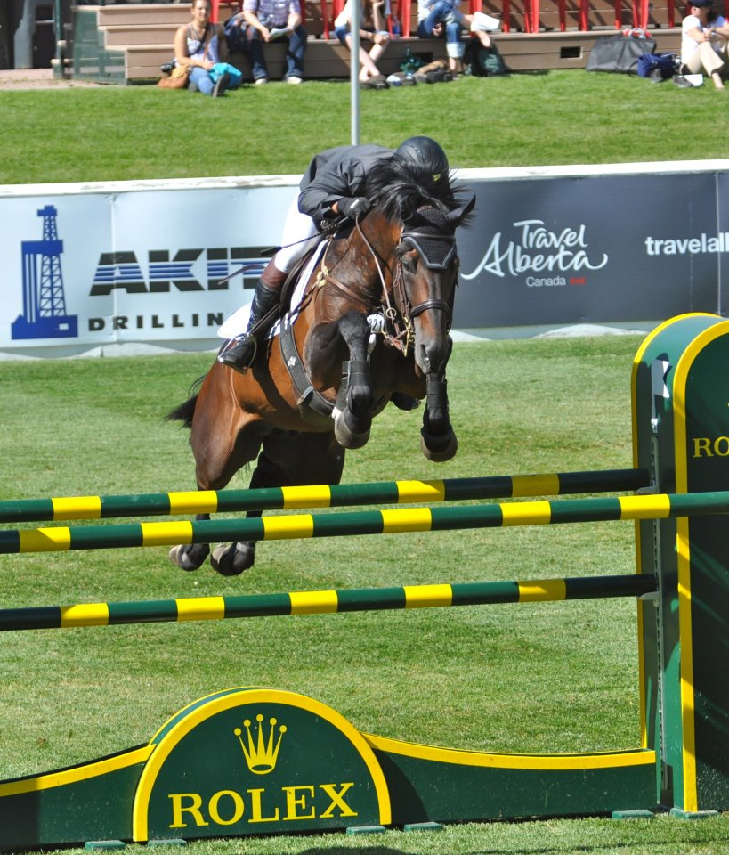 Guy Thomas riding Peterbilt at Spruce Meadows in Calgary, Alberta, Canada